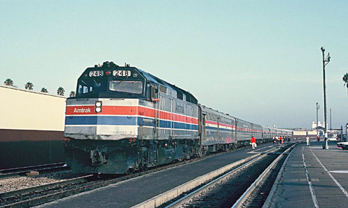 The southbound Spirit of California at Glendale station in August 1982